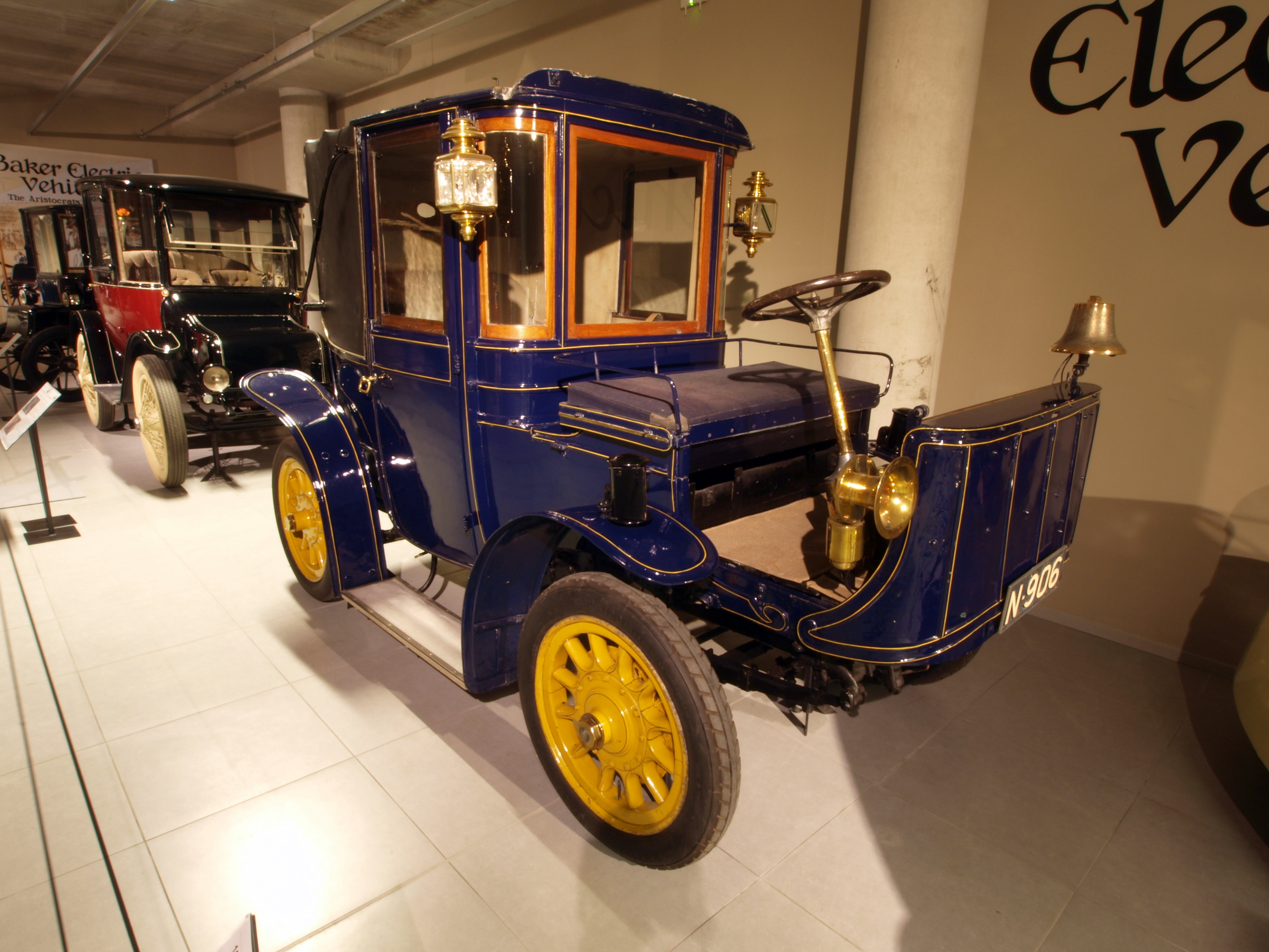 Photographed at the Louwman museum, The Netherlands.